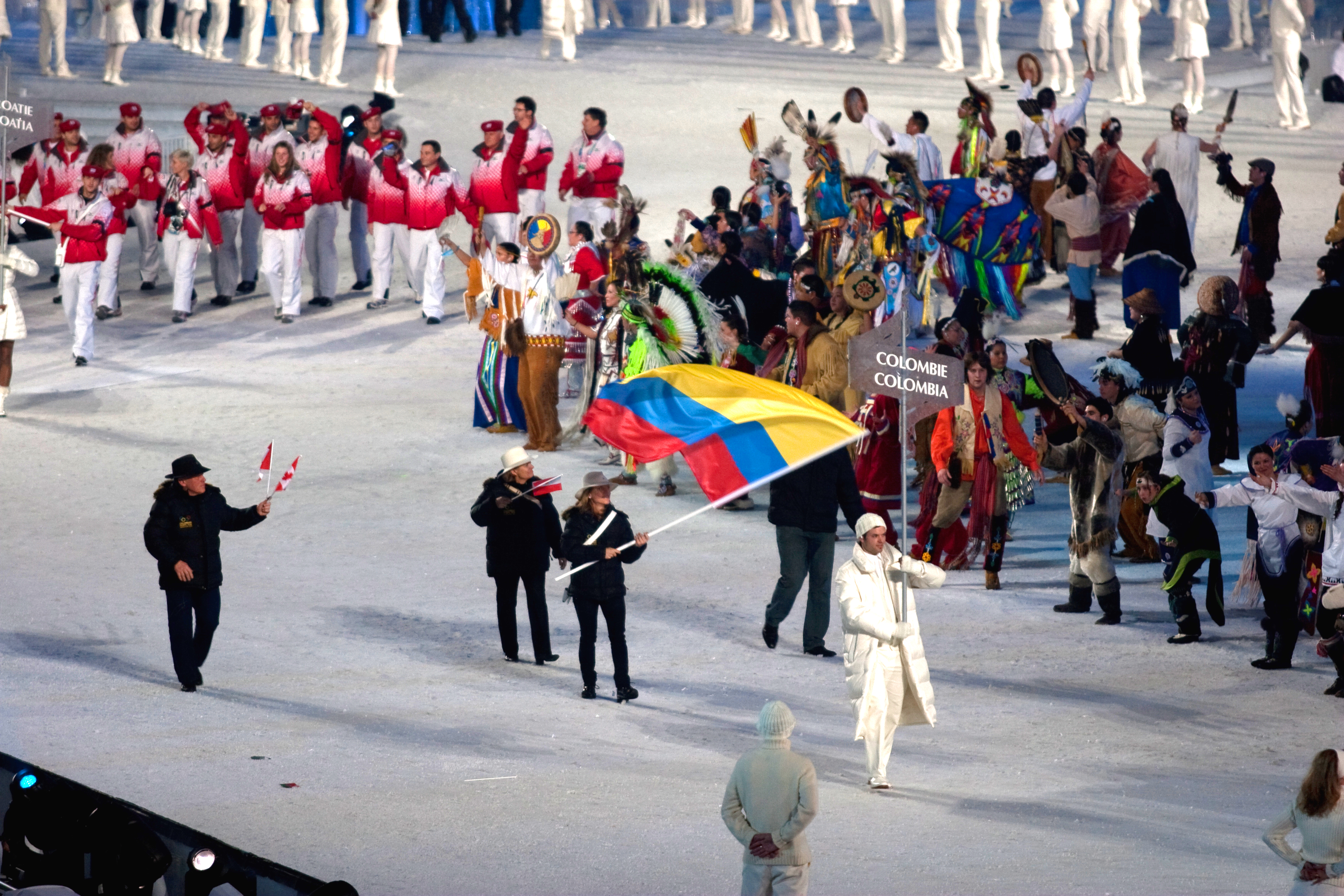 The athletes from Colombia entering the stadium at the opening ceremonies of the 2010 Winter Olympics